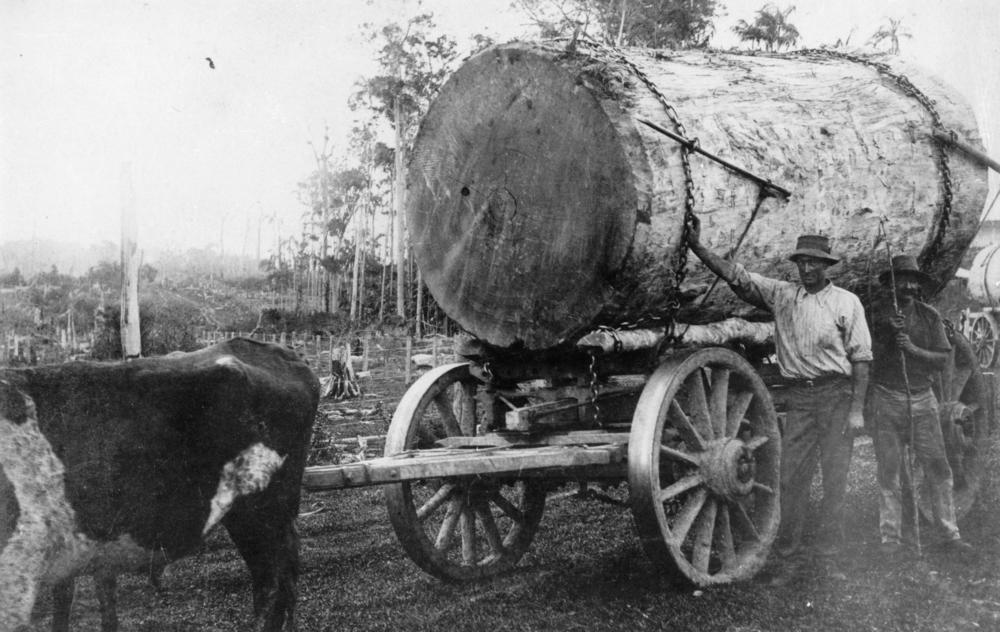 Charlie Ball & Jack Ring with a large log of Kauri pine The section of Kauri is mounted on a bullock drawn timber jinker on the Ball's property. (Description supplied with photograph.).